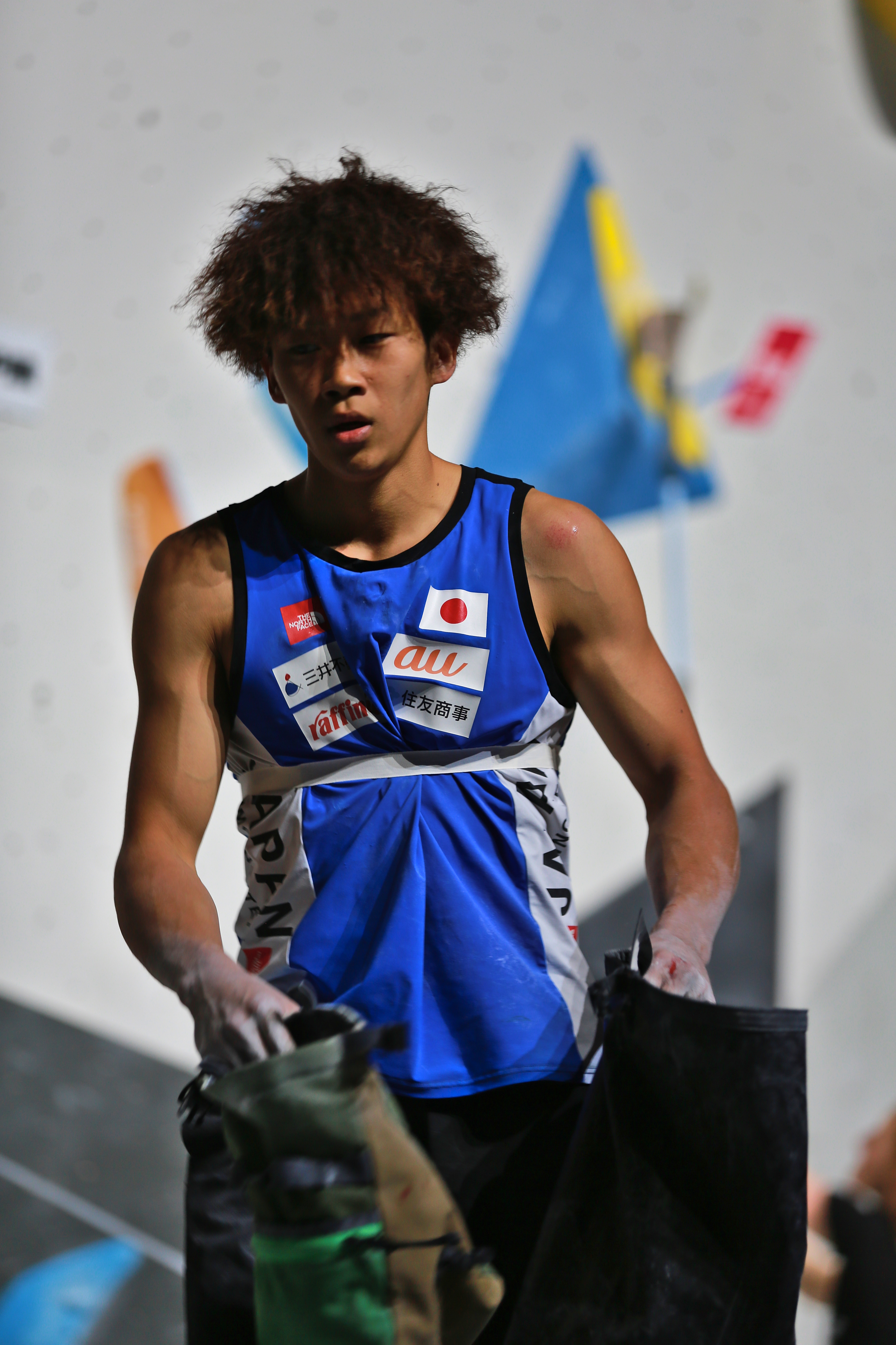 Climbing World Championships 2018 Boulder Semi Ogata